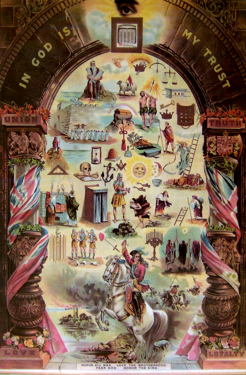 Picture taken by myself with a digital camera of a poster / painting in an Orange Hall. I use it at Orange Order on the front page of my website.